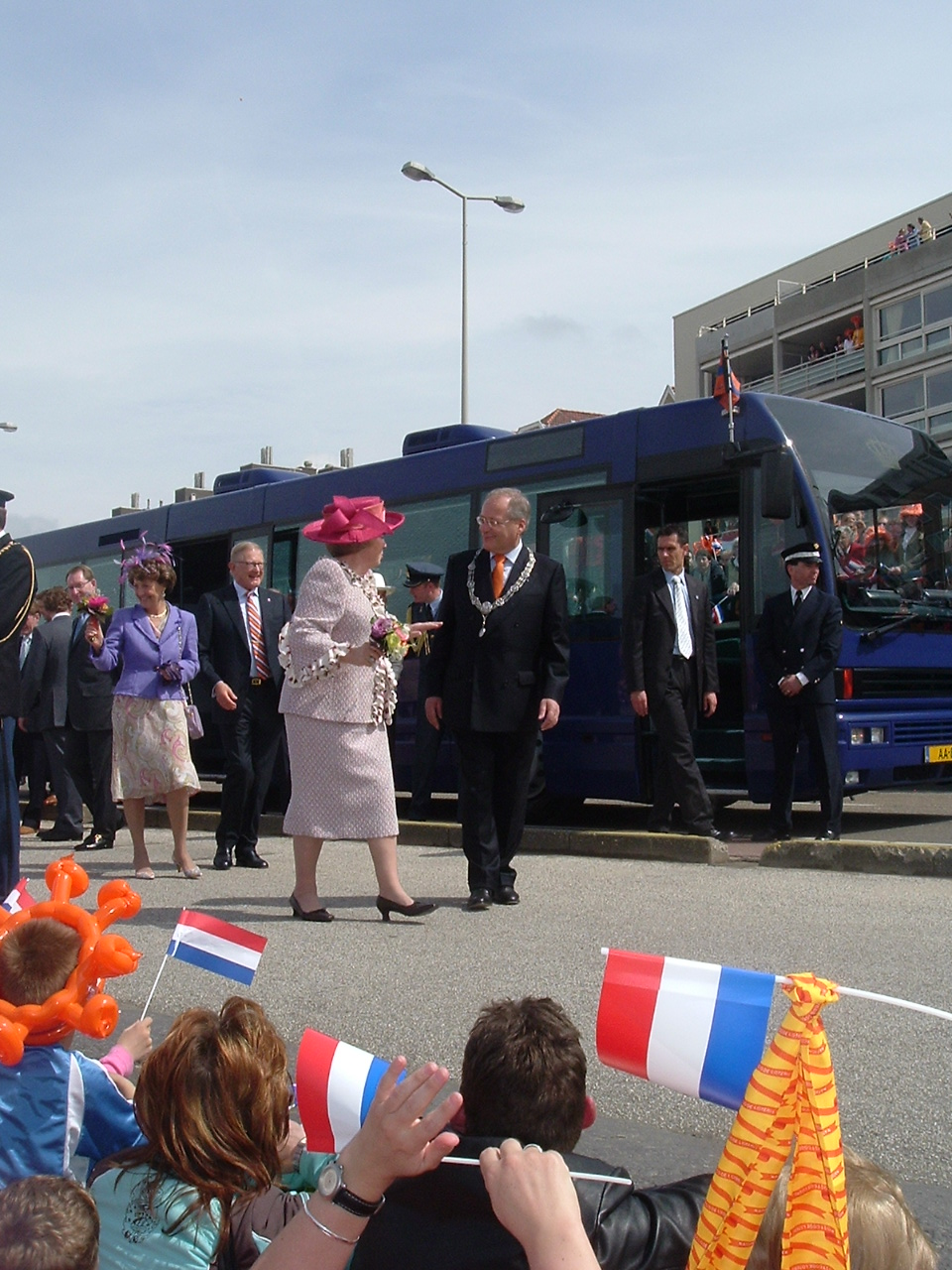 Queen Beatrix of the Netherlands in Scheveningen on Koninginnedag, accompanied by the mayor of Den Haag.